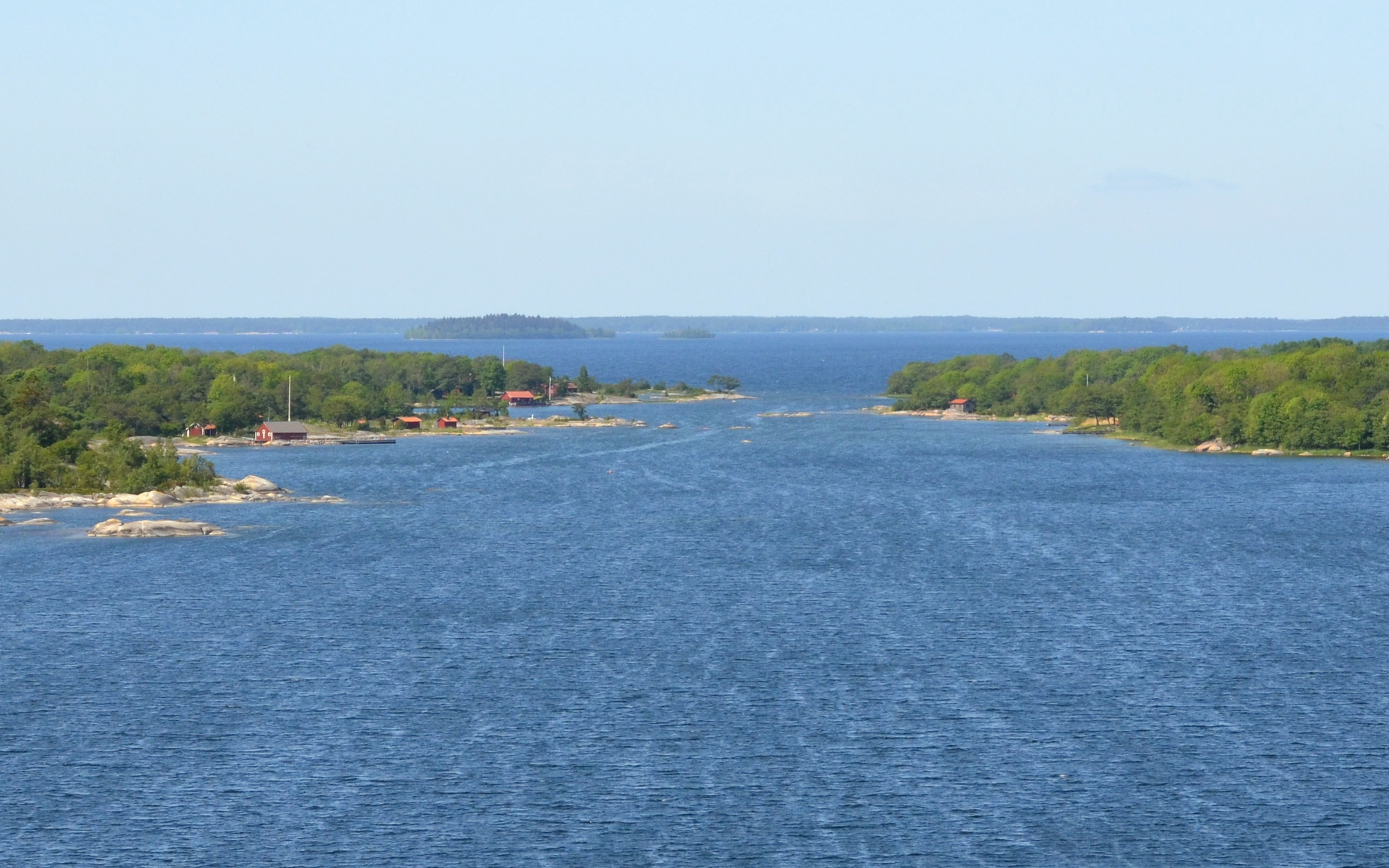 Sound between Sundskär (left) and Brännskär (right).